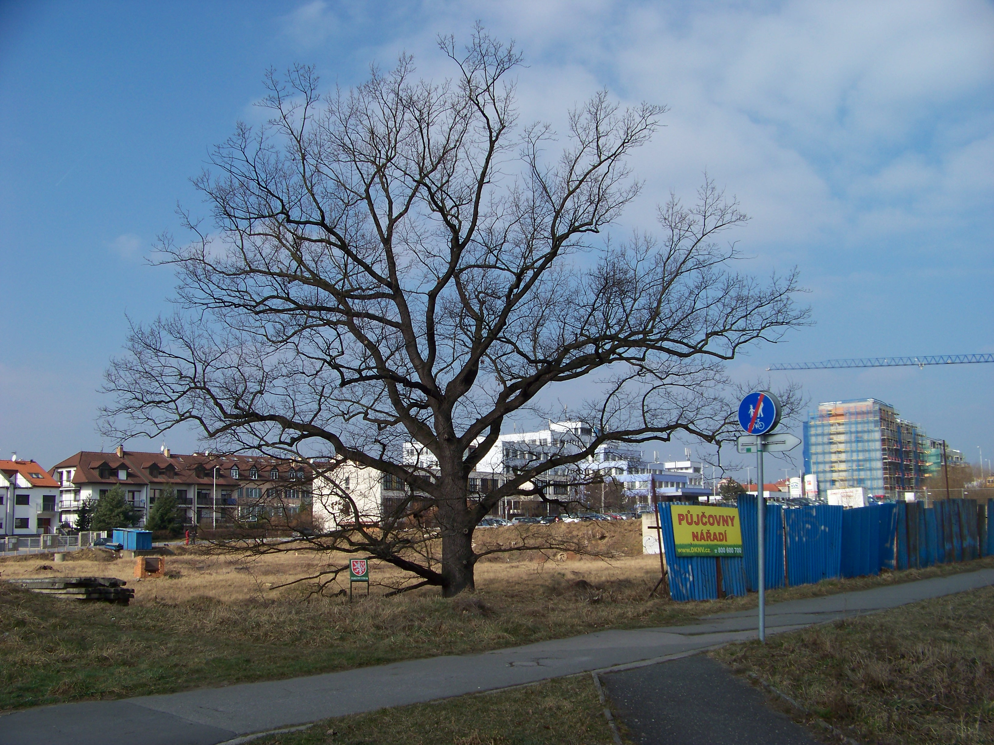 Prague-Modřany, Czech Republic. A memorable oak near the intersection of Československého exilu and Generála Šišky street.